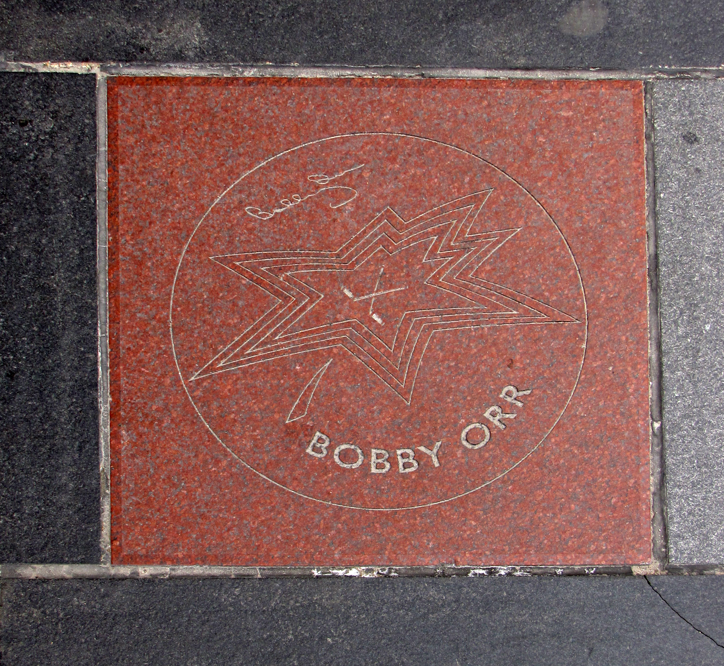 Hockey player Bobby Orr's star on Canada's Walk of Fame